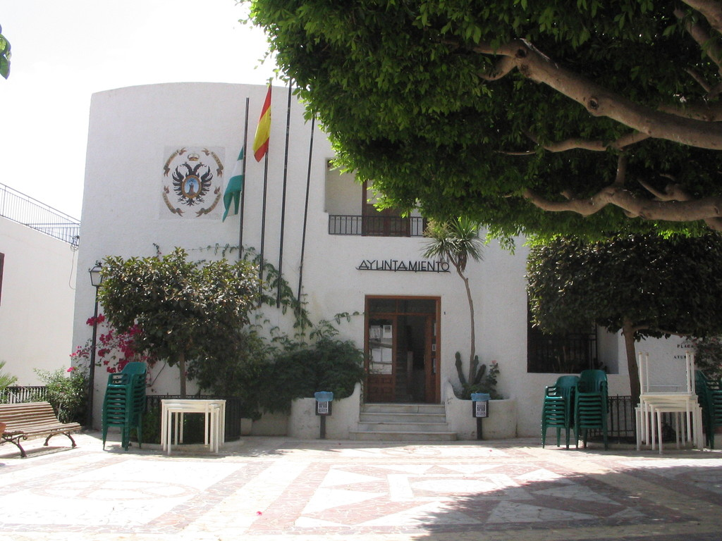 Townhall of Mojacar